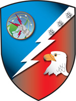 Joint Functional Component Command for Integrated Missile Defense (JFCC IMD) Seal